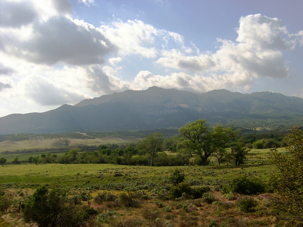 Anza, California, View of the Cahuilla mountains from Cahuilla road. Late spring 2005.